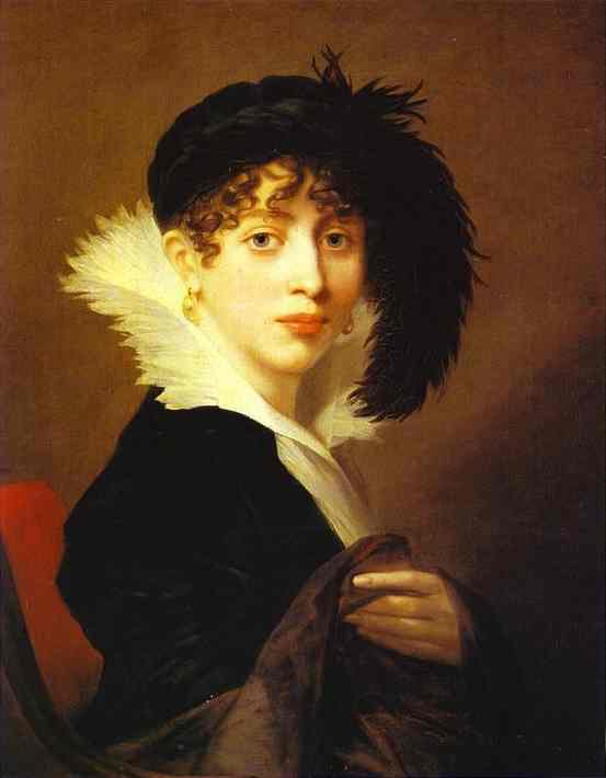 Portrait of Countess Sophia Stroganoff